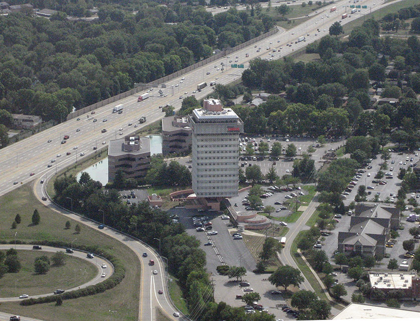 Aerial photo of the Kaden Tower in the context of its suburban Louisville surroundings and showing its cantilever base, looking southward.